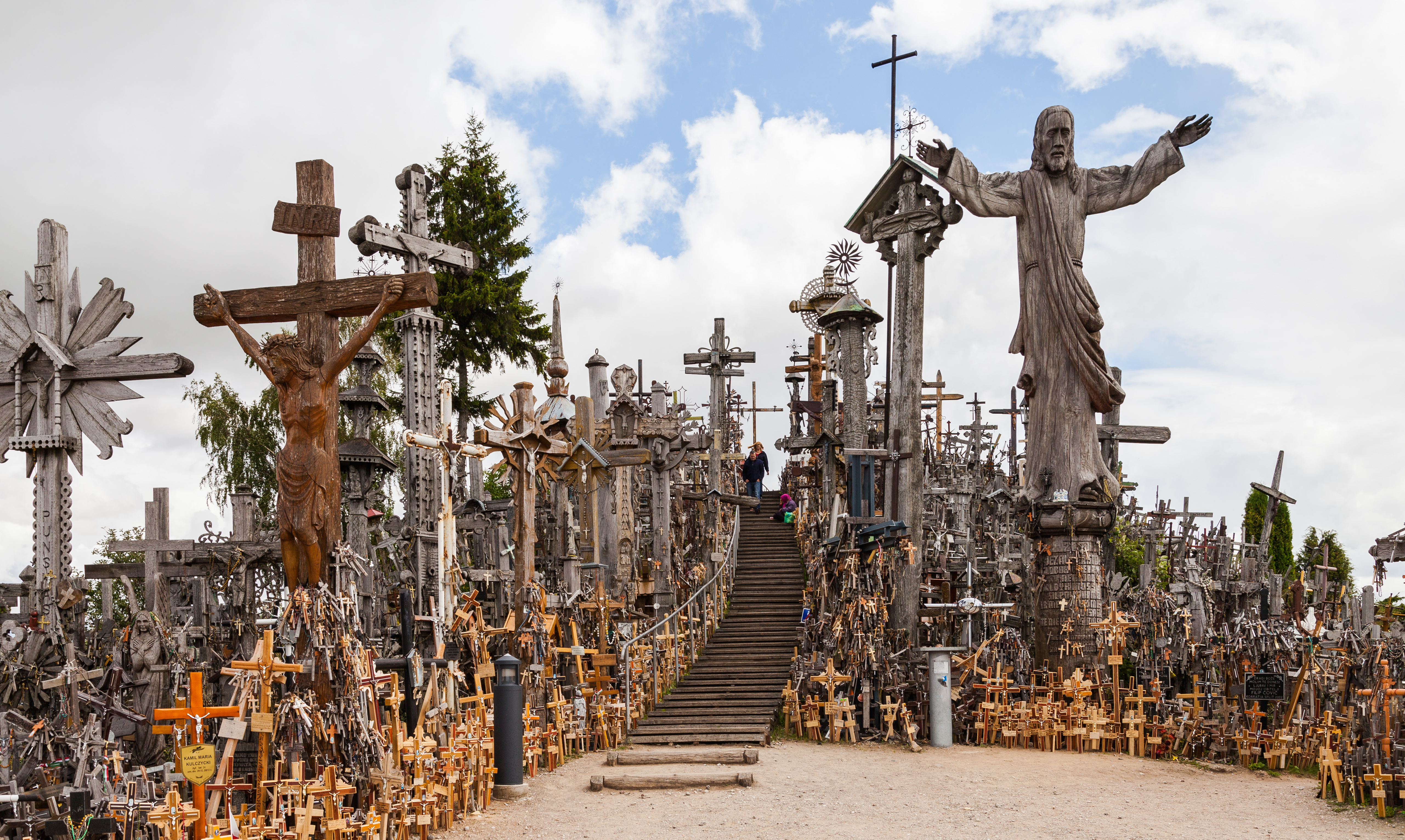 Hill of Crosses, Lithuania